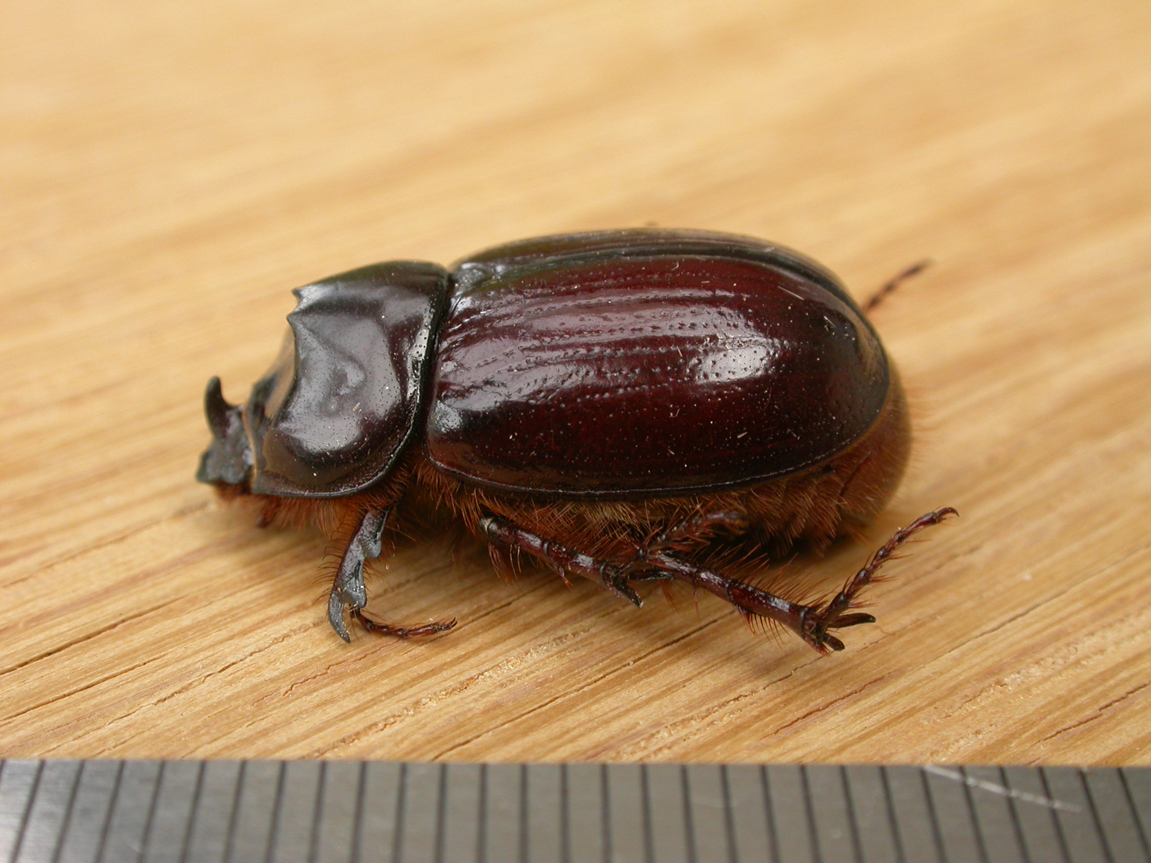 Dasygnathus trituberculatus Blackburn, 1889, to MV light, Aranda, ACT, 5/6 December 2008